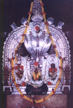 Sri Anantha Padmanabha Swamy Kudupu